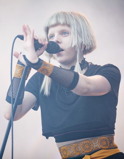 Aurora at Stavernfestivalen. The concert took place on 12. July 2018 in Stavern. Lineup: Aurora (vocal) Silja Dyngeland (keyboard) Fredrik Øgreid Vogsborg (guitar) Magnus Skylstad (drums) Unidentified (keyboard)